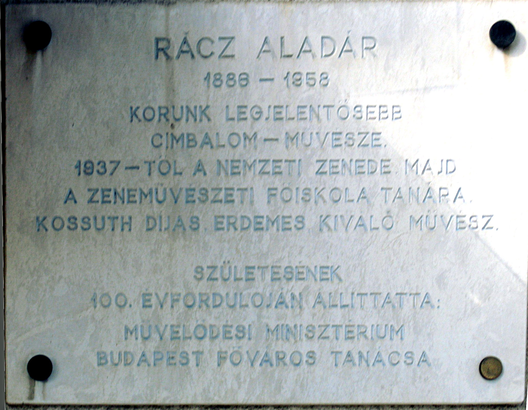 Commemorative plaque of Aladár Rácz, Budapest District XII, Rácz Aladár Street No 2